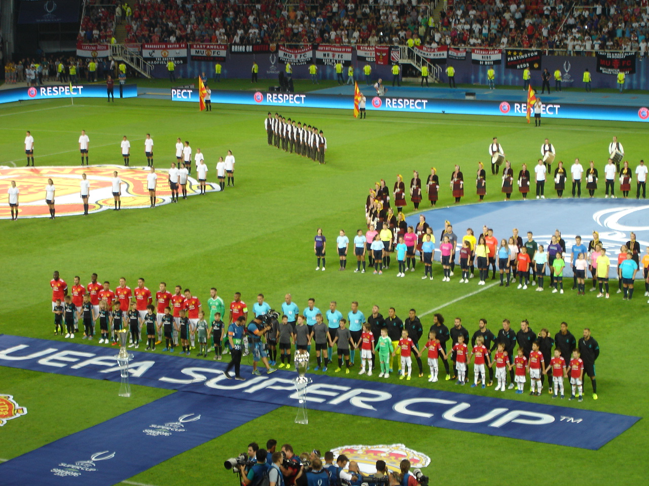 UEFA Super Cup 2017, Real Madrid vs. Manchester United match in Skopje, Macedonia